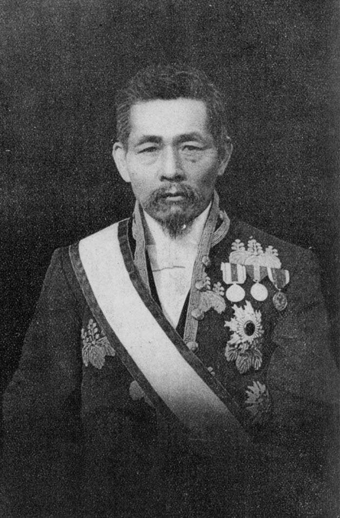 Late Baron Yoshito Okuda, president of the Chuo University.